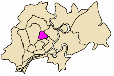 position of Phu Nhuan district in an outline of the core area of HCMC (Ho Chi Minh City, Vietnam) - ISO code VN-F-HC. Keywords: map, outline, city, Ho Chi Minh City, HCMC, HCM, Phu Nhuan district, quan Phu Nhuan.